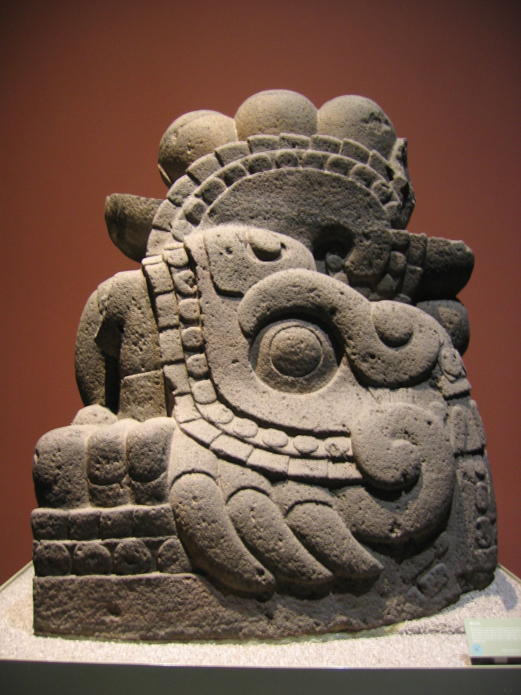 Representation of Xiuhcoatl (see Bertina Olmedo Vera on Google Art Project). Collection of Museo Nacional de Antropología, Mexico City. Originally uploaded to